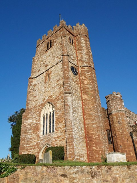 St Andrew's church, Kenn The C15 church is built of local Permian sandstone. The embattled west tower with its stair-turret was restored in the C19.